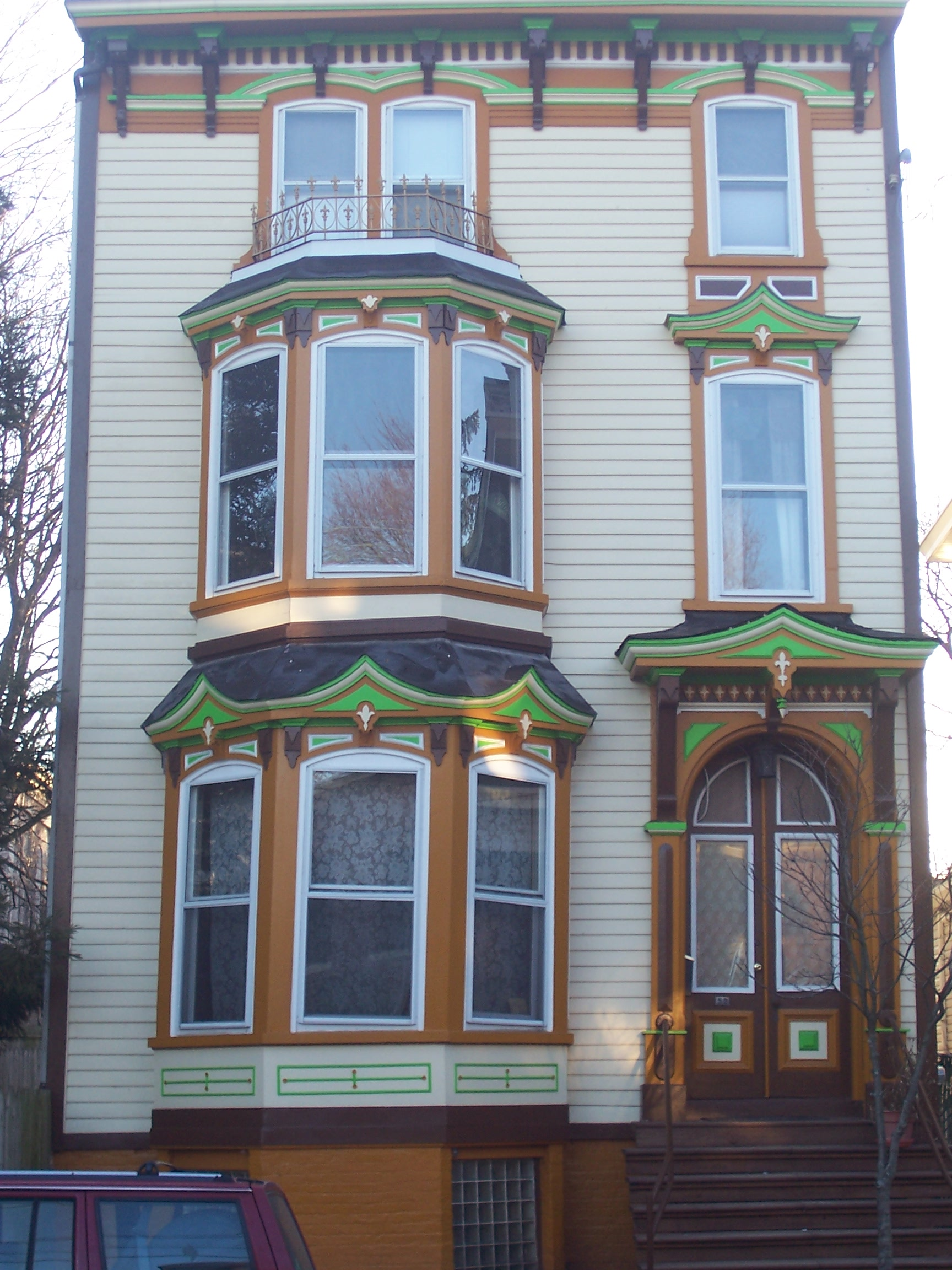 Picture of the facade of The William H. Johnson House, New Bruns., NJ from January 2010. The William H. Johnson House (c. 1870) is on the State of NJ and National Registers of Historic Places. It is supported by Friends of The William H. Johnson House It is an Italianate Victorian, and is significant because of the high level of integrity of it's original decorative components.